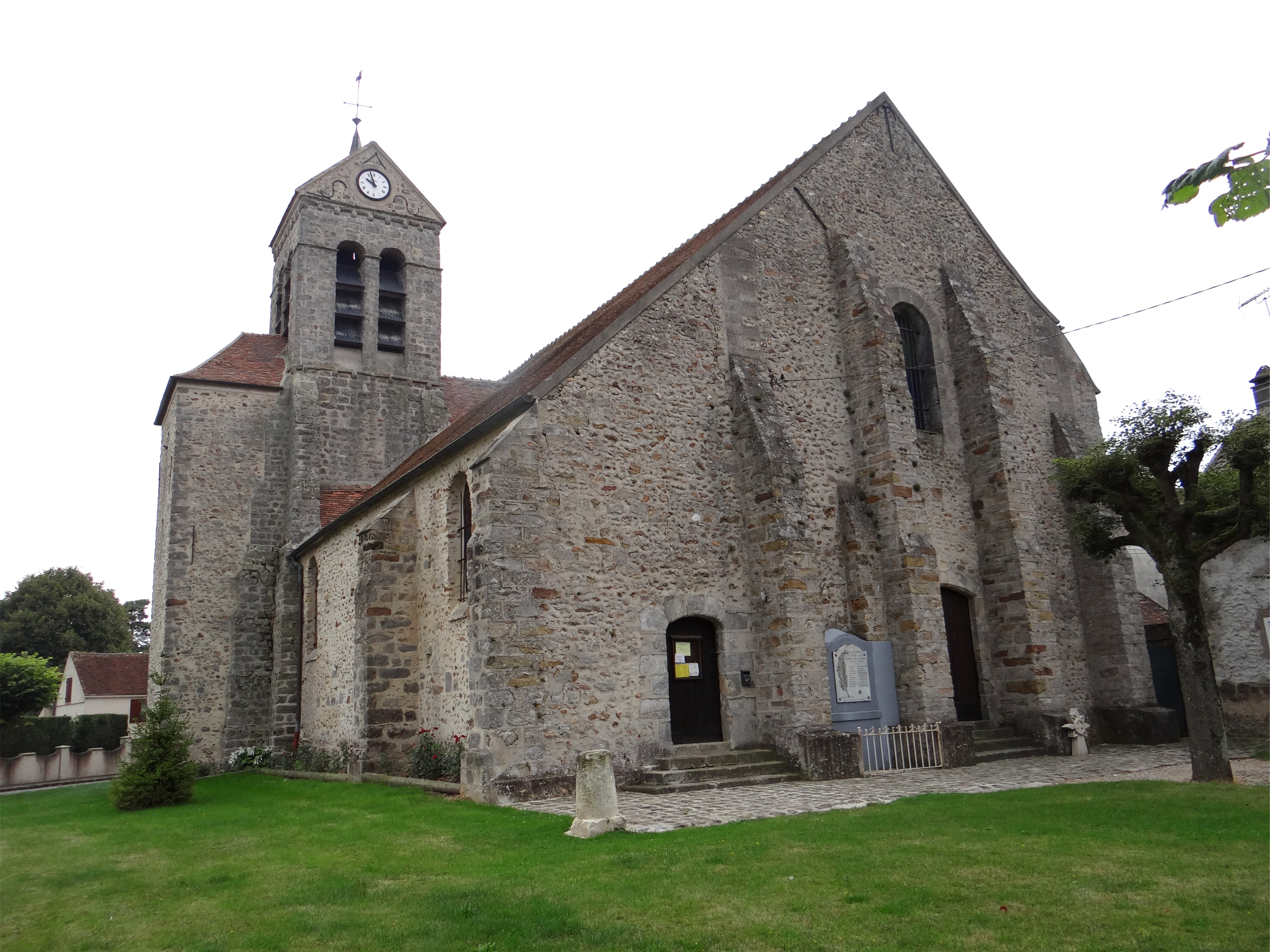 The Saint Martin's Church Yèbles, Seine-et-Marne, France